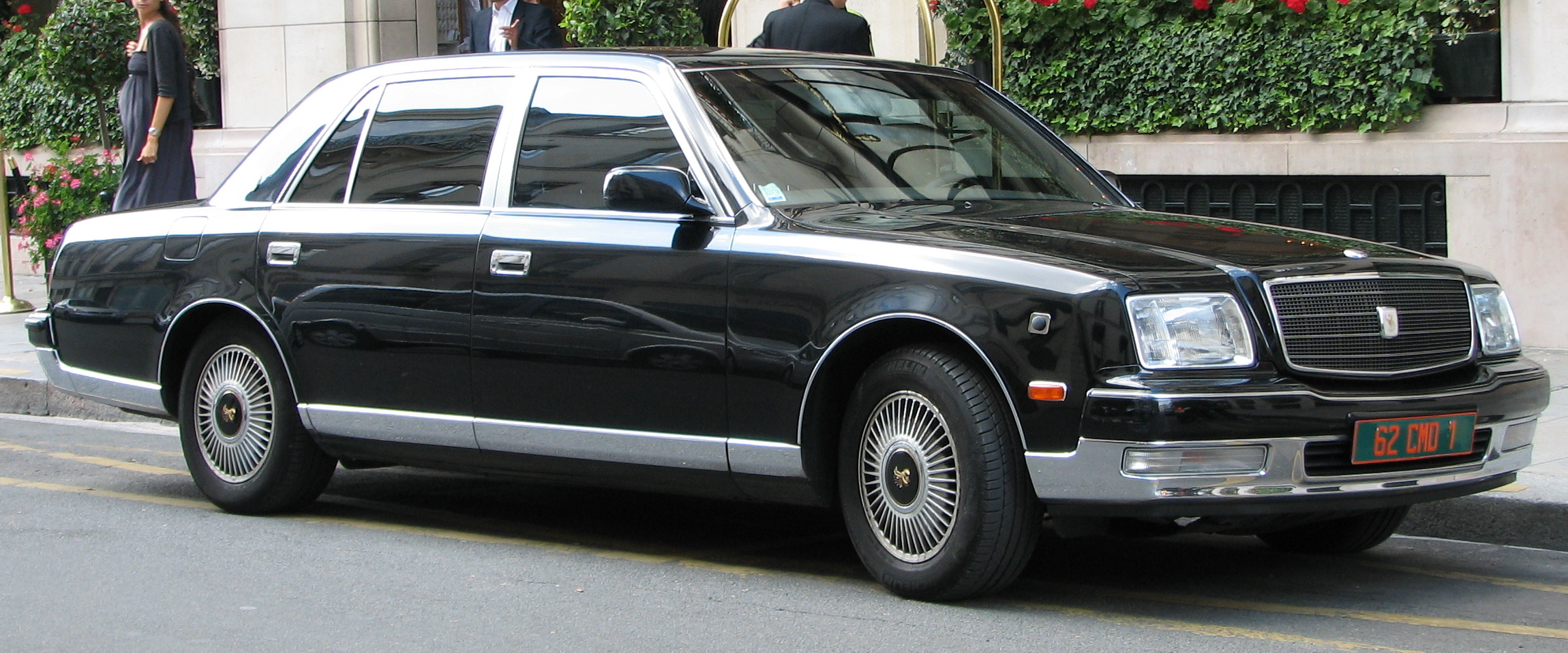 Toyota Century parked in front of Le Bristol hotel, rue du Faubourg Saint-Honoré. It has diplomatic plates so it probably belongs to the Japanese embassy located further up the street. CMD on the licence plate = Chef Mission Diplomatique (Ambassador), and 62 = Japan.